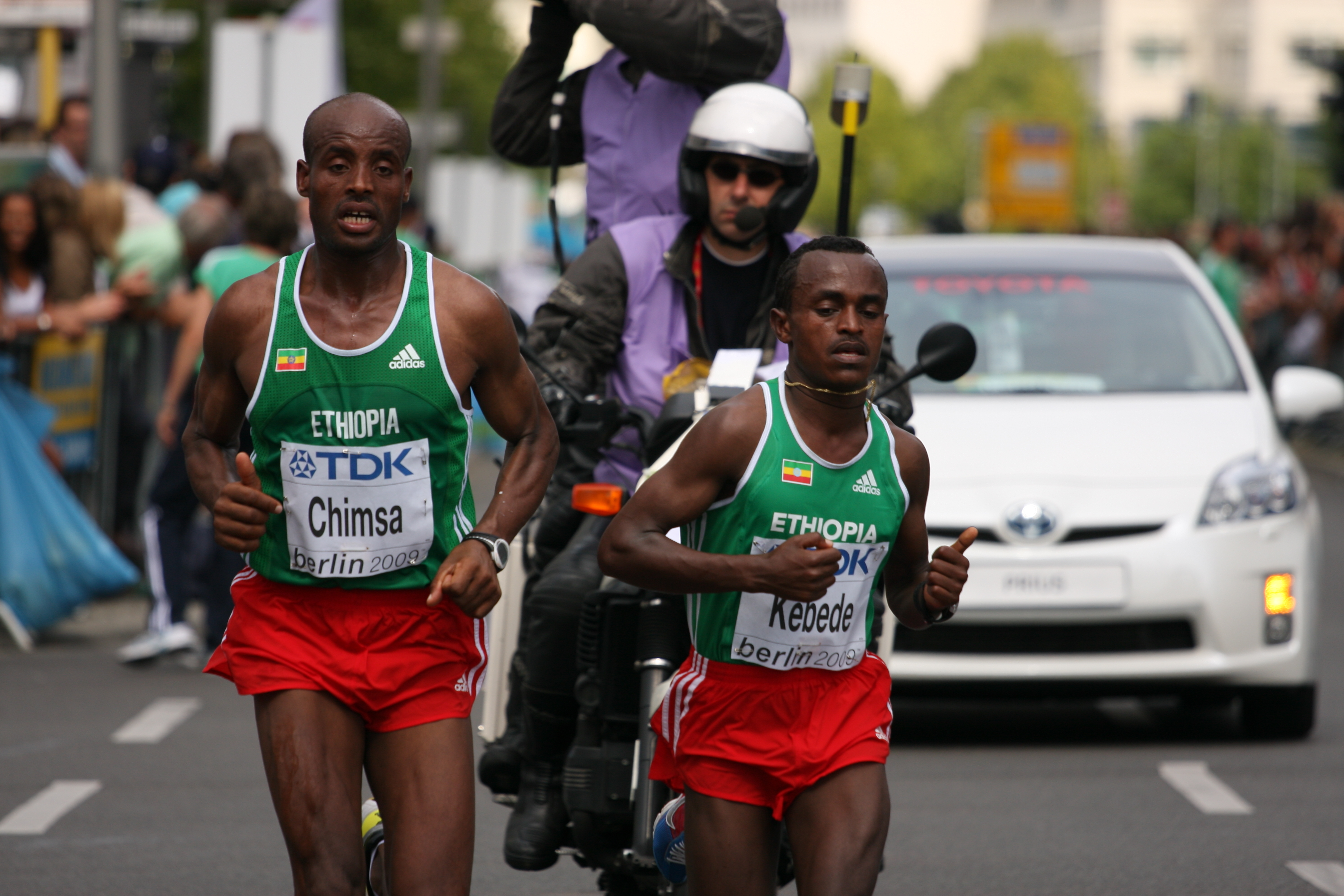 Marathon Tsegay Kebede is the bronze medalist